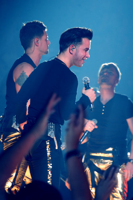 Stephen Gately performing with Boyzone, Wembley, UK, May 2009